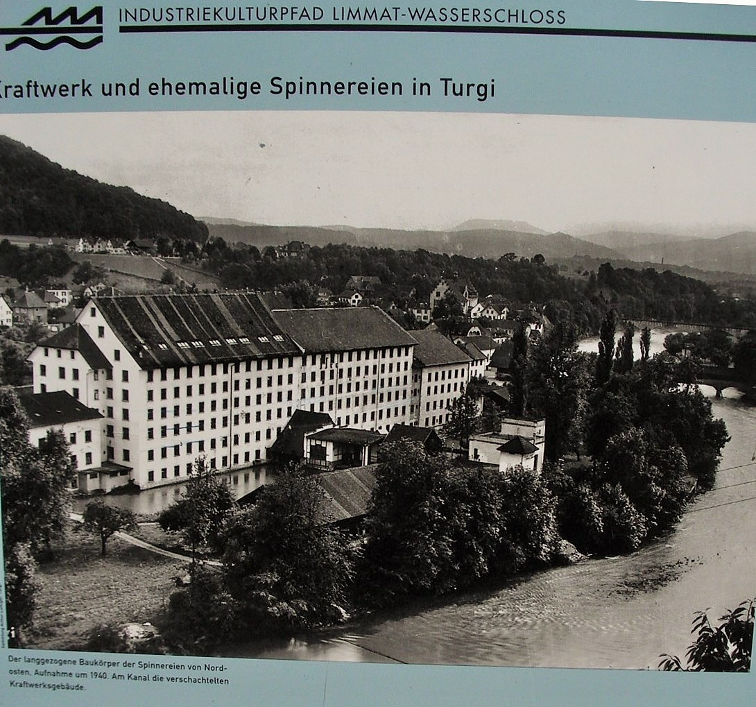 Turgi AG, old spinning factory self-made, October 2005